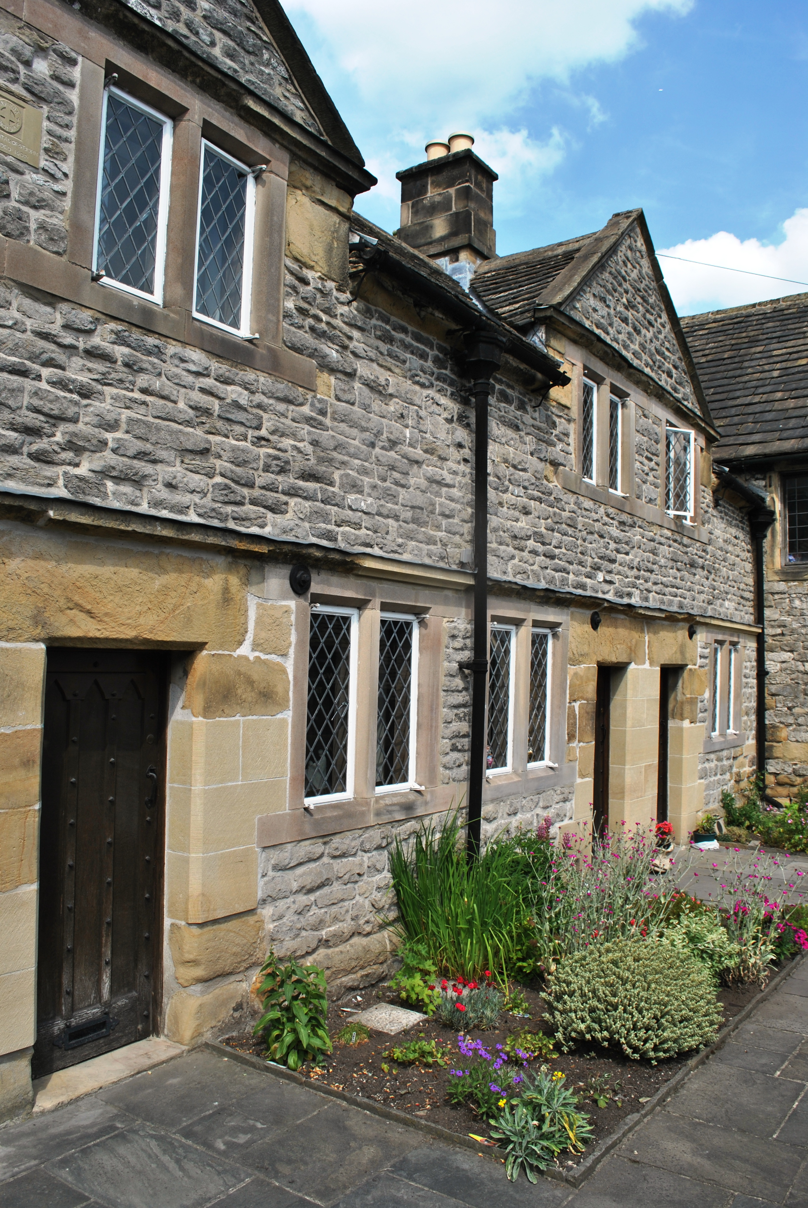 Bakewell Almshouses